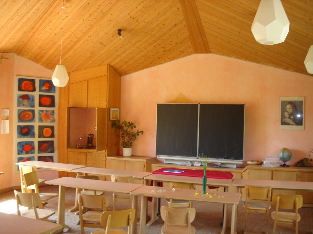 Classroom of a Waldorf schoolEsperanto: klasejo de valdorfa lernejo apud Fulda (Germanio)